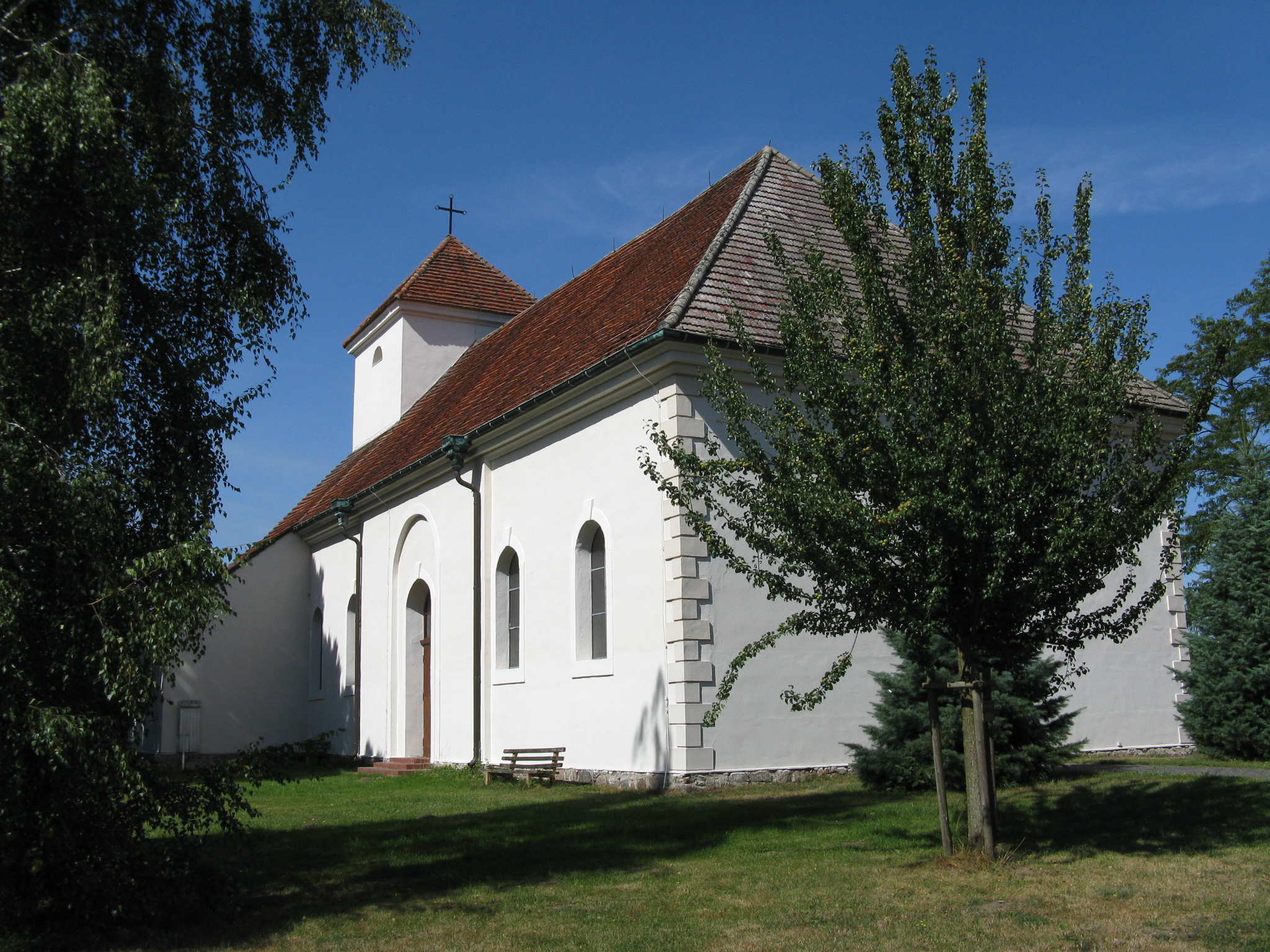 Church in Rechlin Nord, disctrict Müritz, Mecklenburg-Vorpommern, Germany